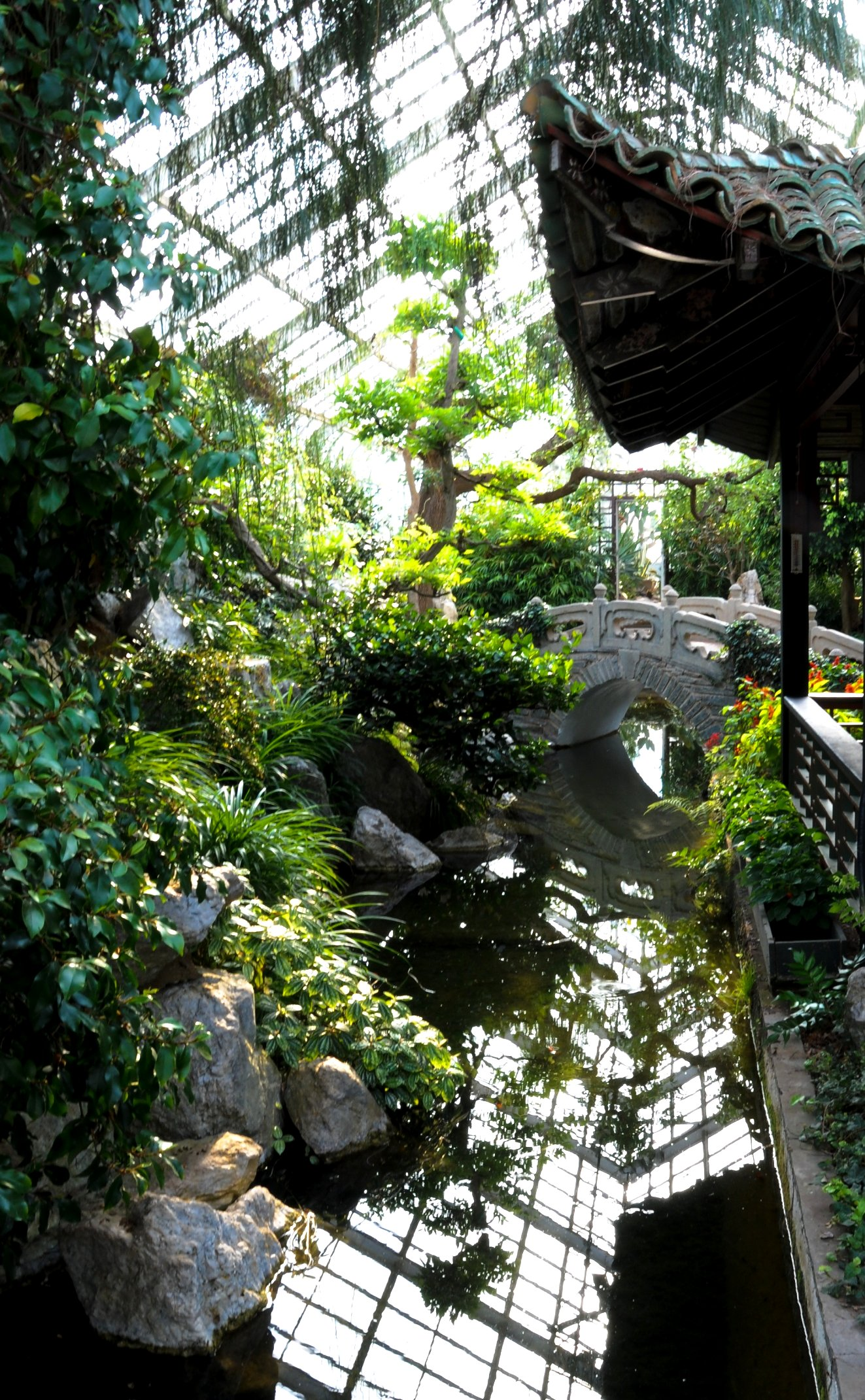 The former Chinese Garden at Duke Gardens in New Jersey. The serenity bridge crossed a koi stream surrounded by rock formations, with bamboo and camphor trees. Doris Duke designed this garden to illustrate the small private Chinese style gardens that many wealthy Chinese families created in the early 20th century. History Duke Gardens featured distinct designs inspired by diverse cultures and regions of the world for 11 Indoor Display Gardens. Italian, Colonial, Edwardian, French, English, Chinese, Japanese, and Indo-Persian designs wereare juxtaposed near desert, tropical, and semi-tropical greenhouse environments. In 1958, Doris Duke began a six-year process of designing and creating the display gardens. She traveled the globe seeking specimens and ideas to complete the gardens, which she first opened to the public in 1964. On May 25, 2008, the Indoor Display Gardens were closed indefinitely by the Trustees of the Doris Duke Charitable Foundation.